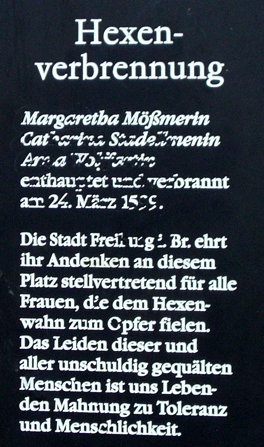 Plaque witch burning Martinstor Freiburg Breisgau